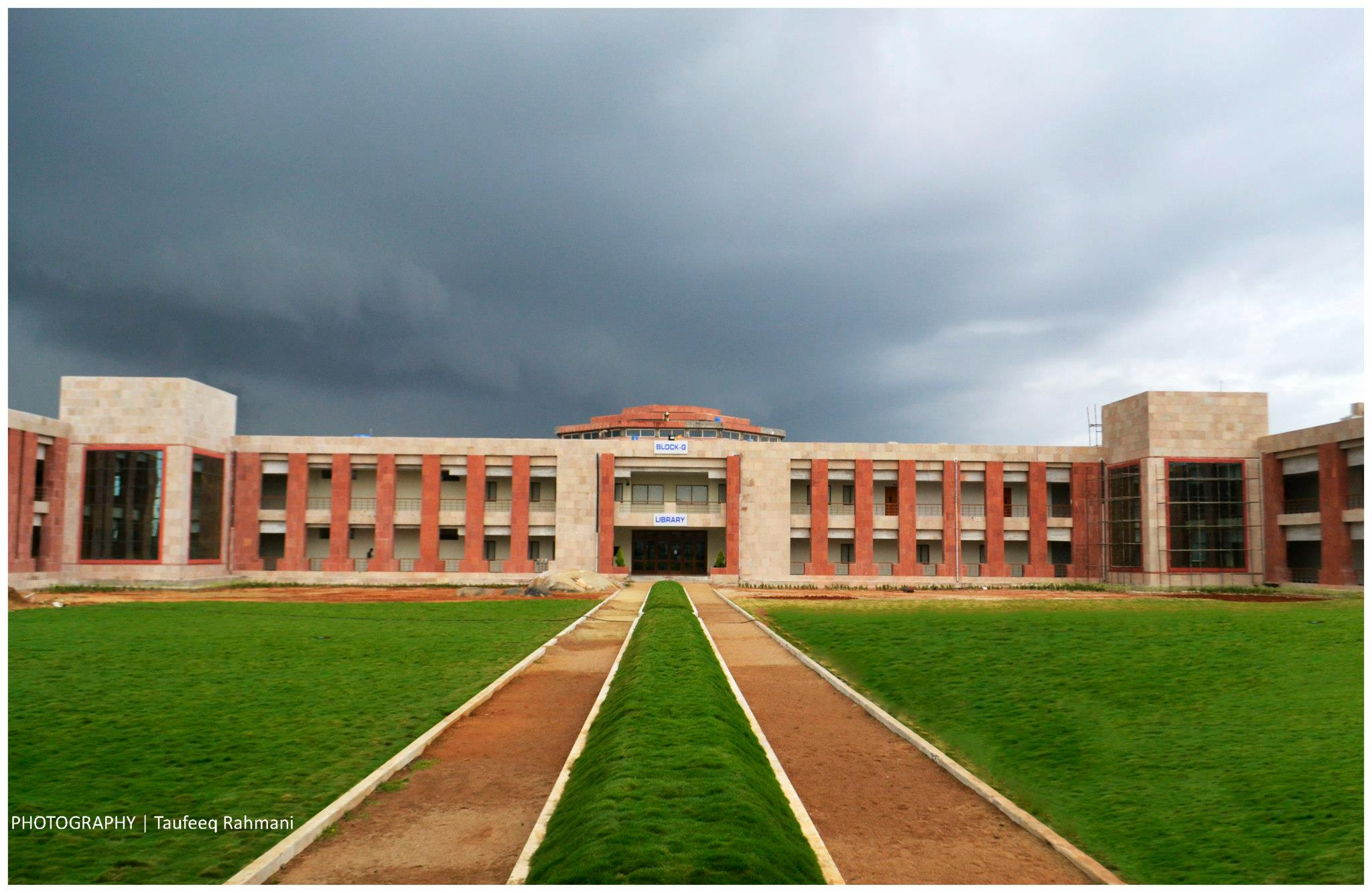 Central Library, BPHC